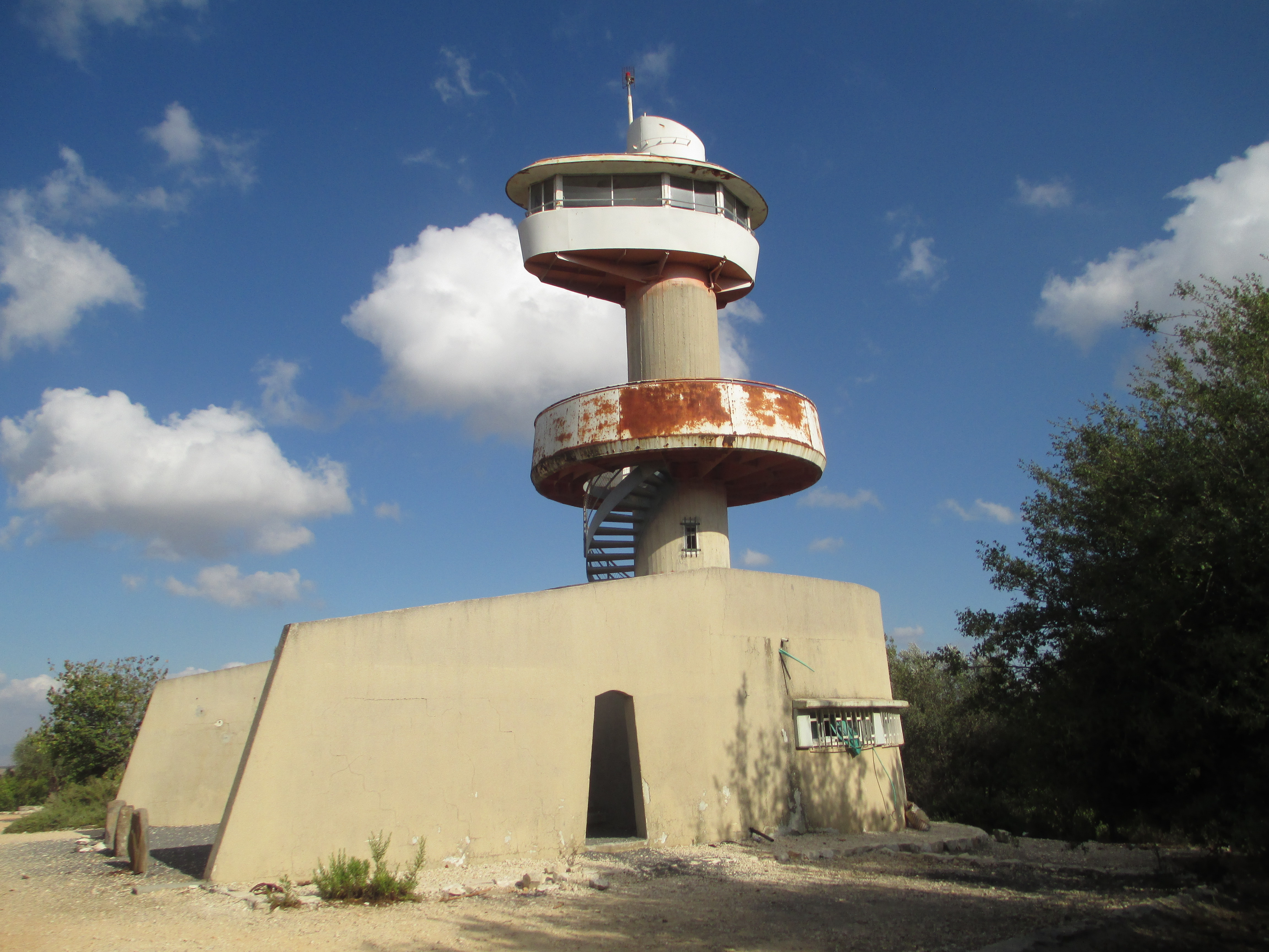 Bar'am observatory tower